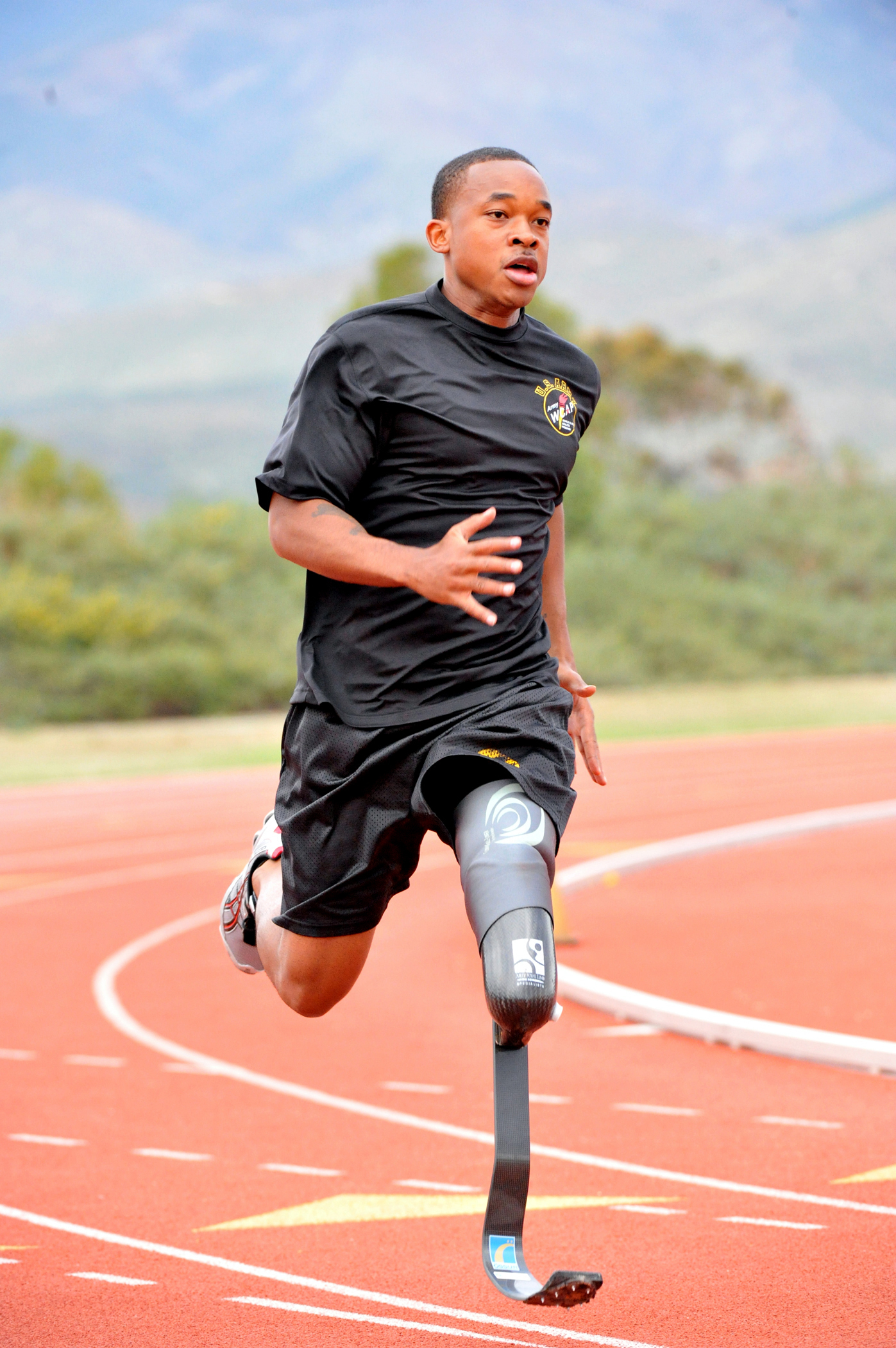 Sgt. Jerrod Fields, a U.S. Army World Class Athlete Program Paralympic sprinter hopeful, works out at the U.S. Olympic Training Center in Chula Vista, Calif. A below-the-knee amputee, Fields won a gold medal in the 100 meters with a time of 12.15 seconds at the Endeavor Games in Edmond, Okla., on June 13, 2009. See more at Below-knee amputee runs for berth in 2012 Paralympics Photo by Tim Hipps, FMWRC Public Affairs